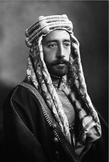 Faisal I, king of Iraq from 1921 to 1933